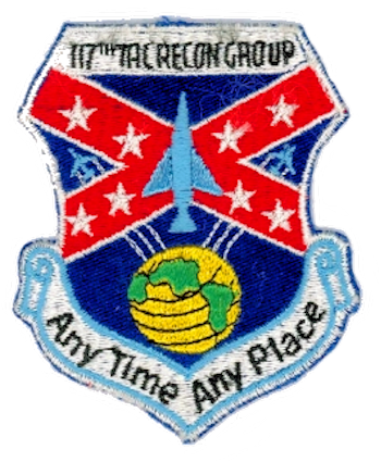 117th Tactical Reconnaissance Group - Legacy Emblem.